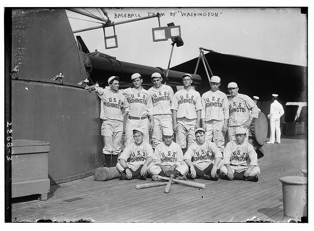 Bain News Service,, publisher. [Baseball team on ship named WASHINGTON (baseball)] USS Washington baseball team in 1911 [ca. 1911] 1 negative : glass ; 5 x 7 in. or smaller. Notes: Original data provided by the Bain News Service on the negatives or caption cards: Baseball team WASHINGTON. Corrected title and date based on research by the Pictorial History Committee, Society for American Baseball Research, 2006. Forms part of: George Grantham Bain Collection (Library of Congress). Format: Glass negatives. Repository: Library of Congress, Prints and Photographs Division, Washington, D.C. 20540 USA, General information about the Bain Collection is available at Persistent URL: Call Number: LC-B2- 2268-3